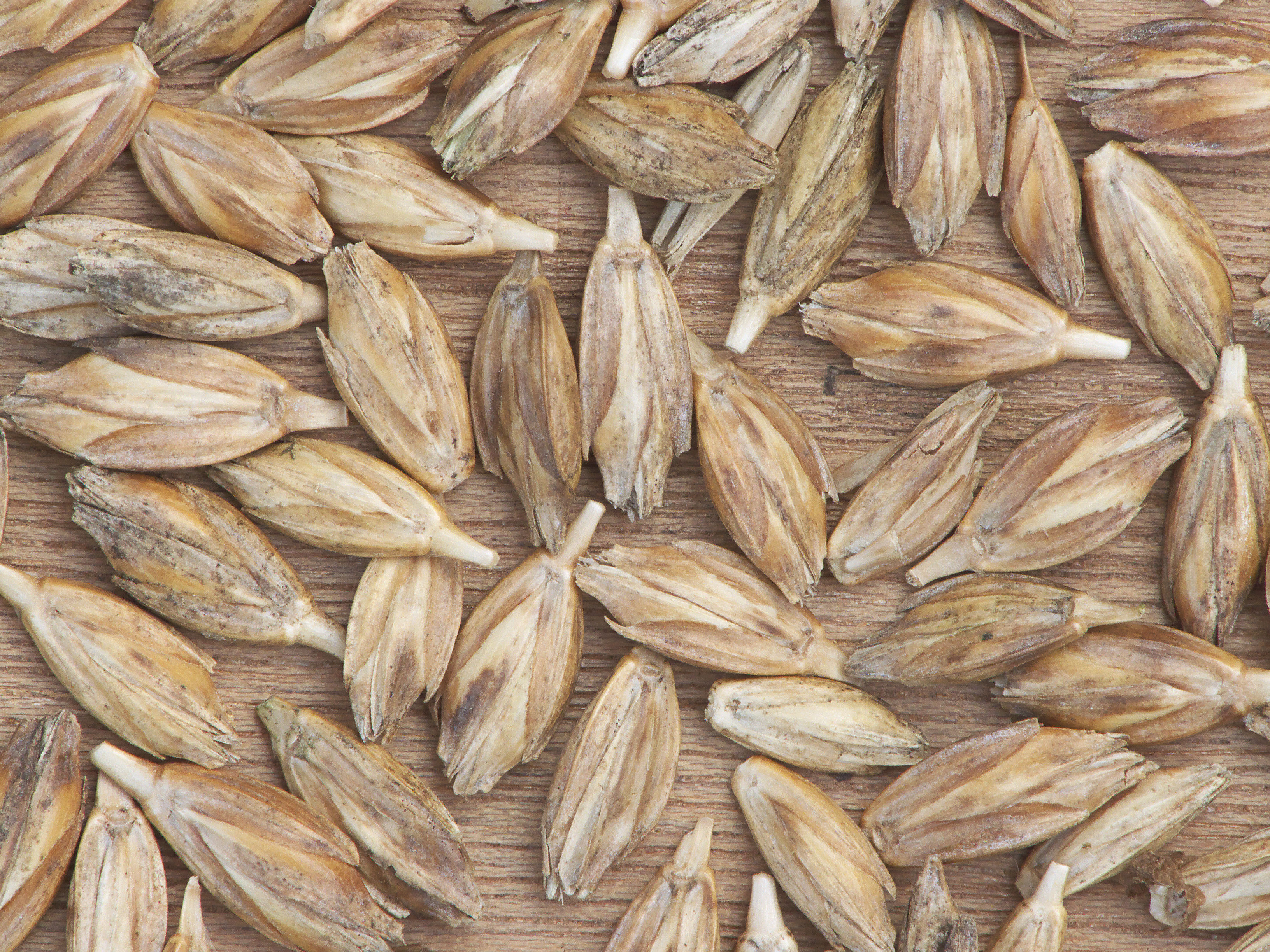 Triticum dicoccum